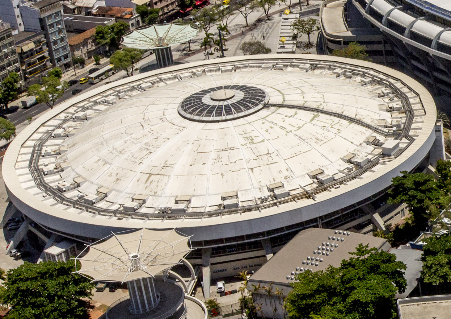 File:Maracanã_2014_e.jpg